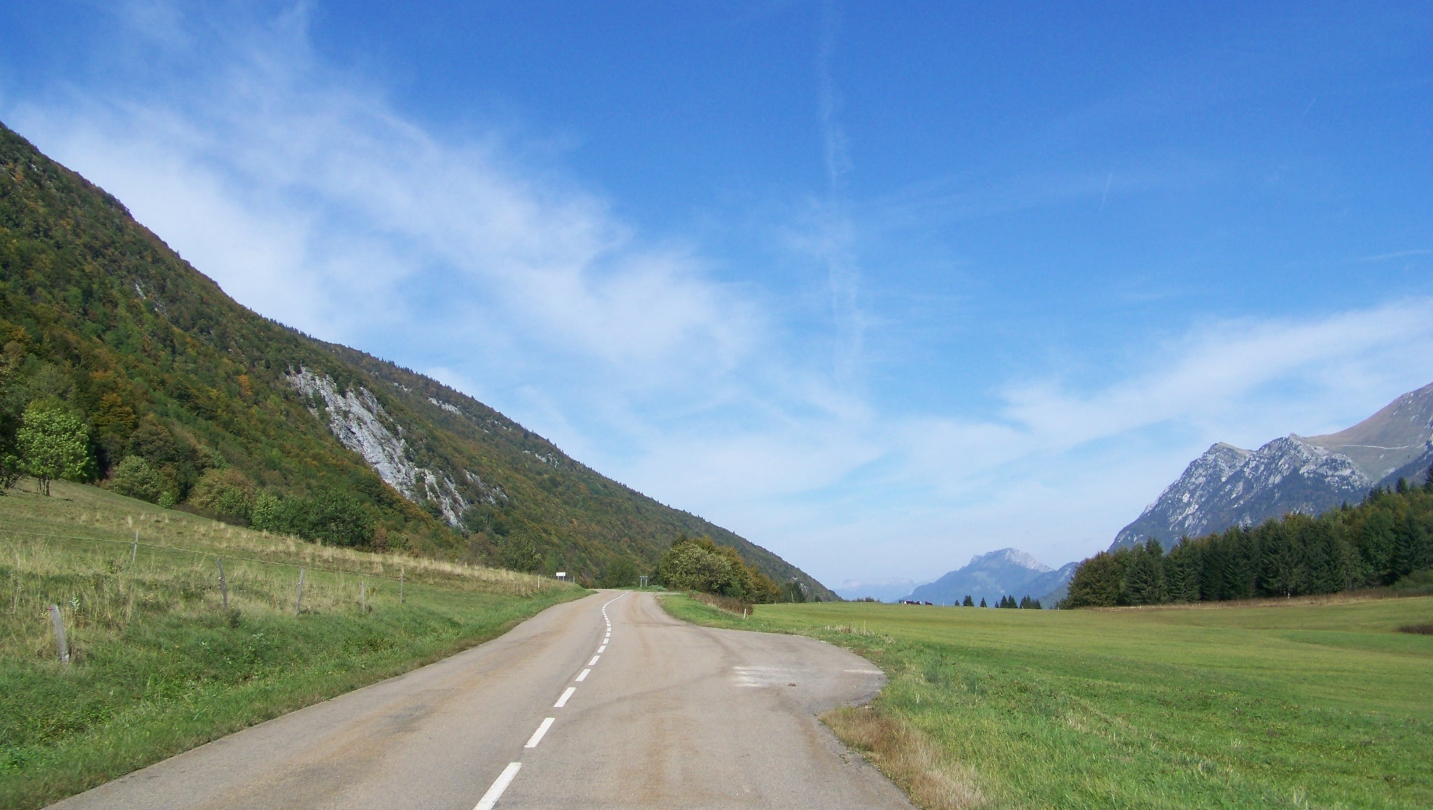 Sight of col des Prés pass (road: alt. 1142 m high) in the massif des Bauges mountains, towards Aillon-le-Jeune, in Savoie, France.